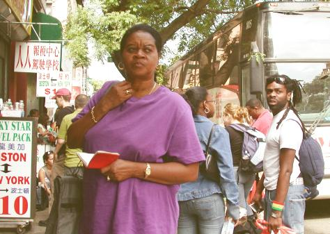 Passengers waiting for the Travel Pack bus to Boston on Mulberry Street in Manhattan, Aug. 2004 © 2004 Matthew Trump (User:Decumanus)